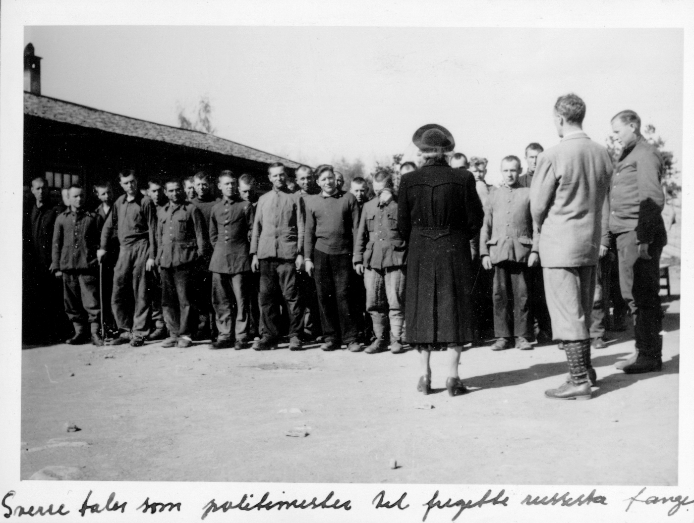 Sverre Knutsen, newly instated chief of police and prosecuting authority in Hamar, Norway, addresses Soviet prisoners of war as they are liberated from a camp near Hamar, possibly in Vangsåsen.